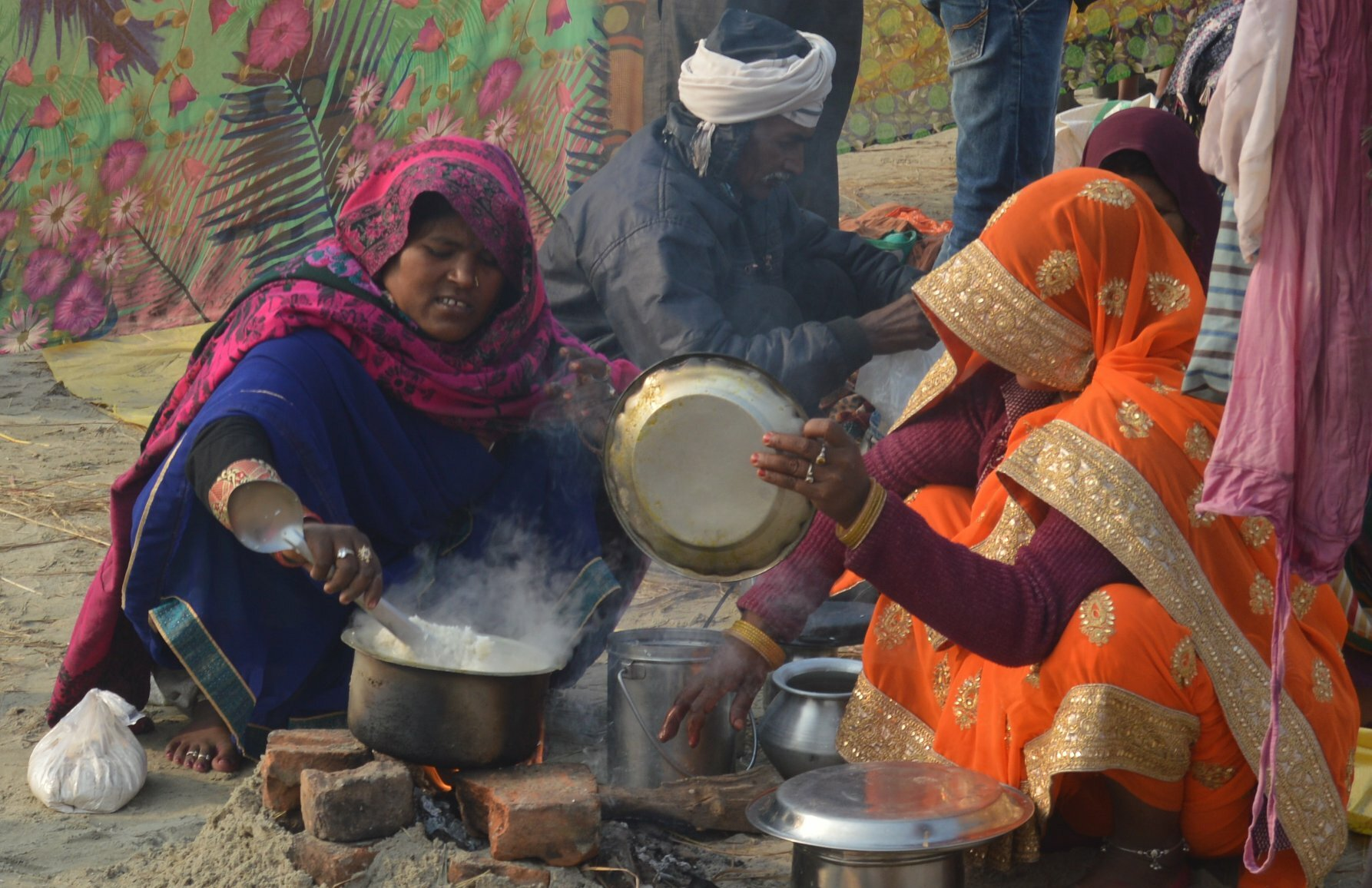 Cooking along the banks of the Yamuna at the 2019 Prayagraj Kumbh Mela This photo has been taken in the country: India